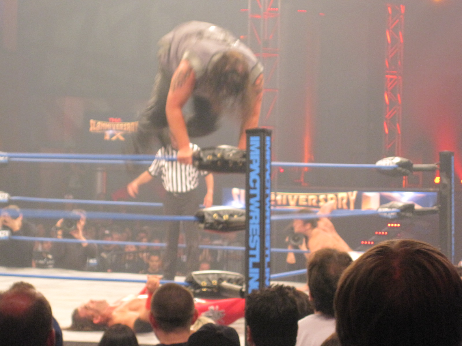 Sunday, June 12, 2011. Universal Orlando